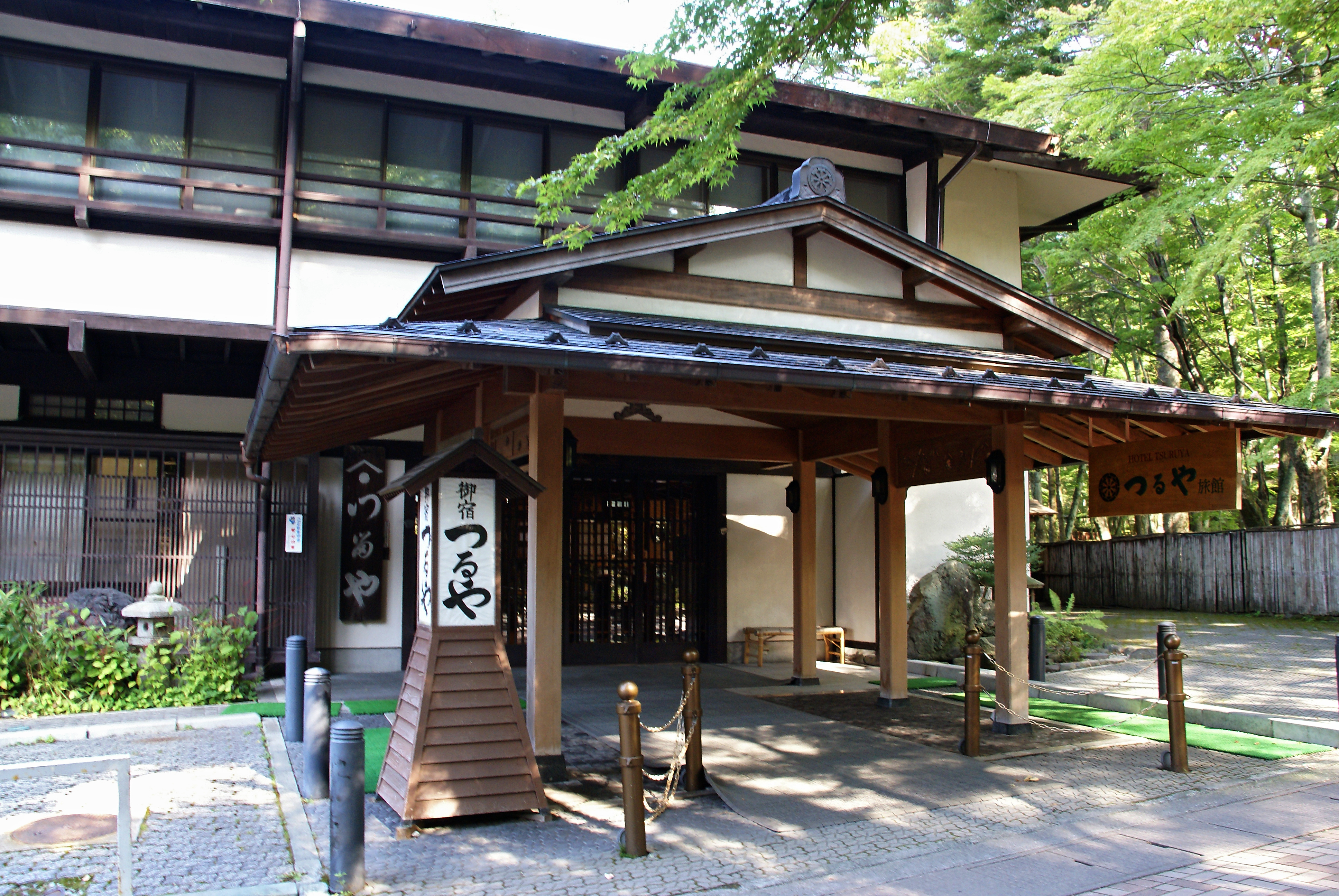 Ryokan Tsuruya in Karuizawa, Nagano prefecture, Japan.